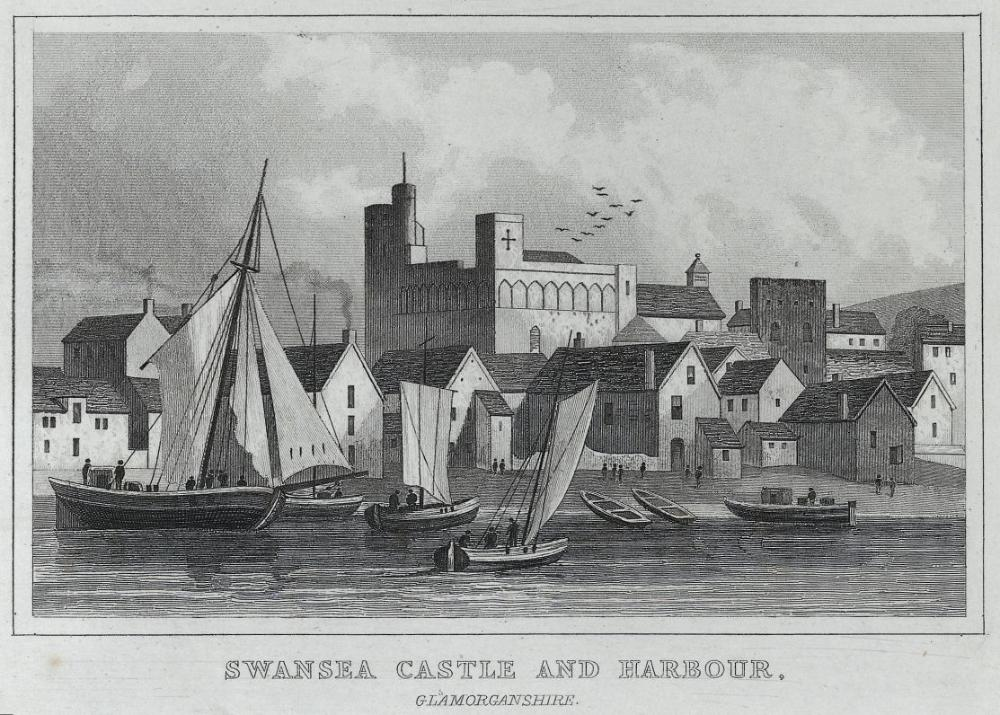 A view of boats in the harbour at Swansea with numerous buildings on the seafront including the castle in the background.